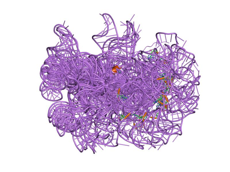 Cartoon representation of the molecular structure of protein registered with 1u6p code.